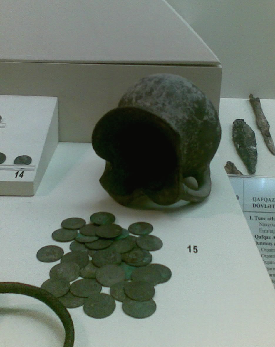 Albanian monet treasury which founded Xınıslı village of Shamakhı region of Azerbaijan republic, saved Azerbaijan National History Museum